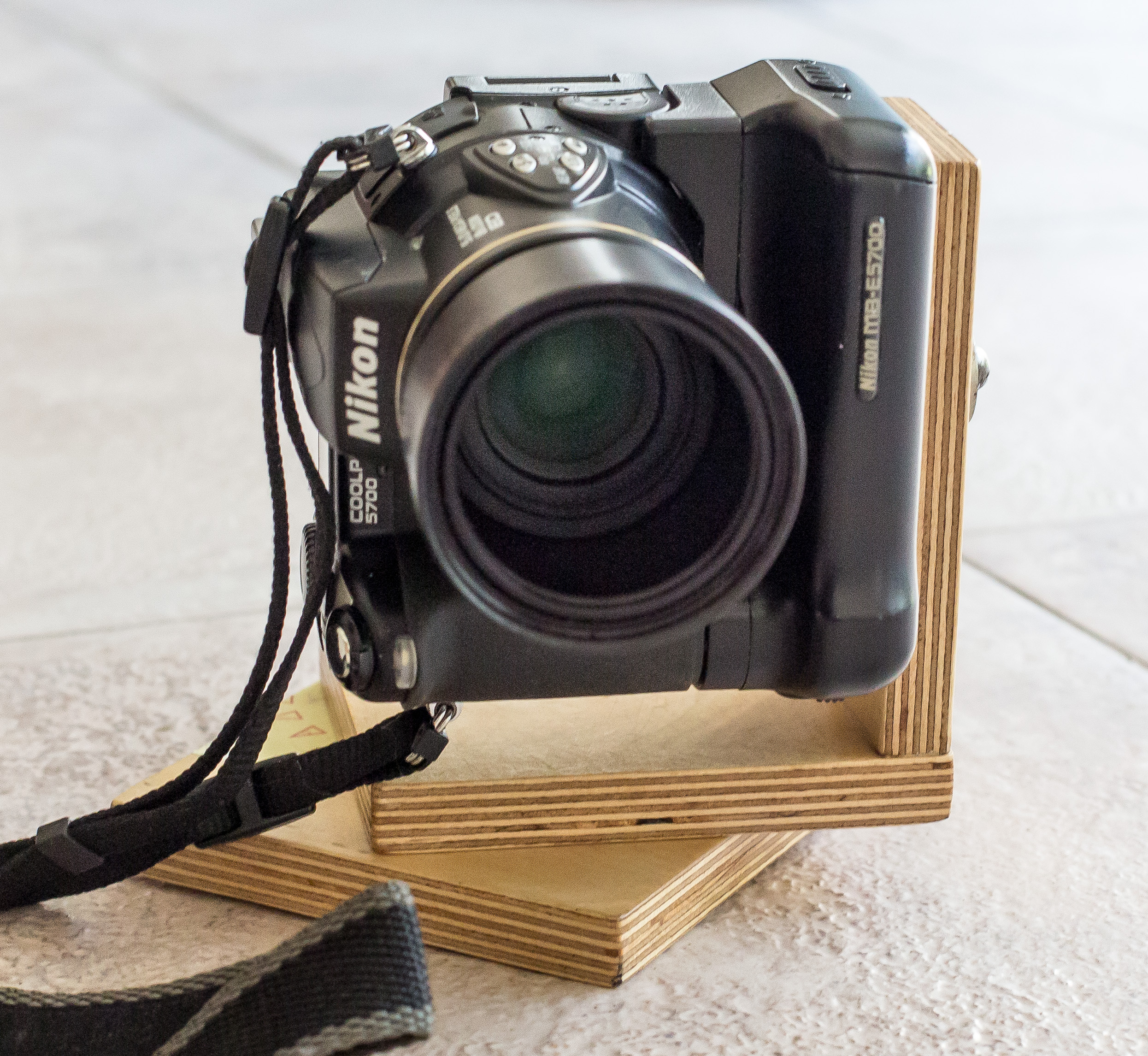 DIY simple panoramic tripod head